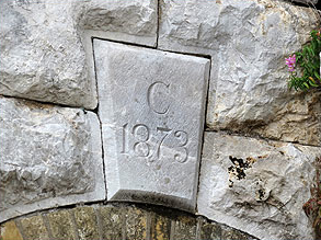 Date of 1873 inscribed above a doorway of the Flat Bastion Magazine in Gibraltar.